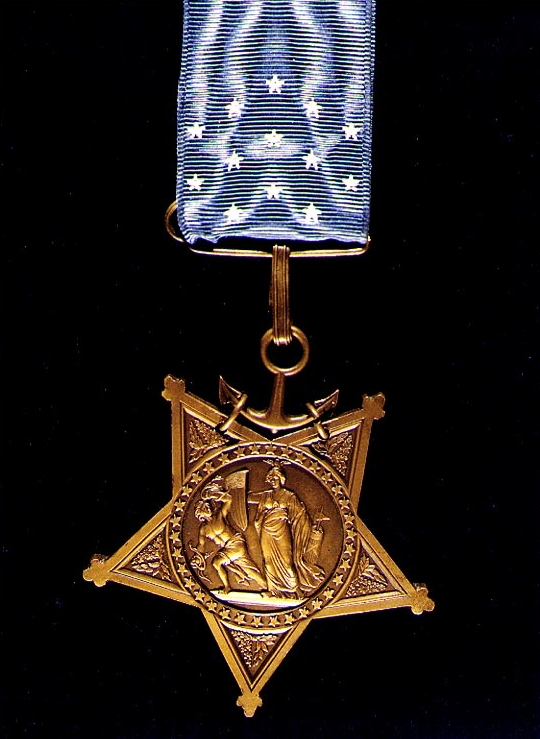 Obverse of a Medal of Honor awarded posthumously to Chief Water Tender Peter Tomich for "extraordinary courage and disregard of his own safety" as USS Utah (AG-16) was sinking during the attack on Pearl Harbor, 7 December 1941.